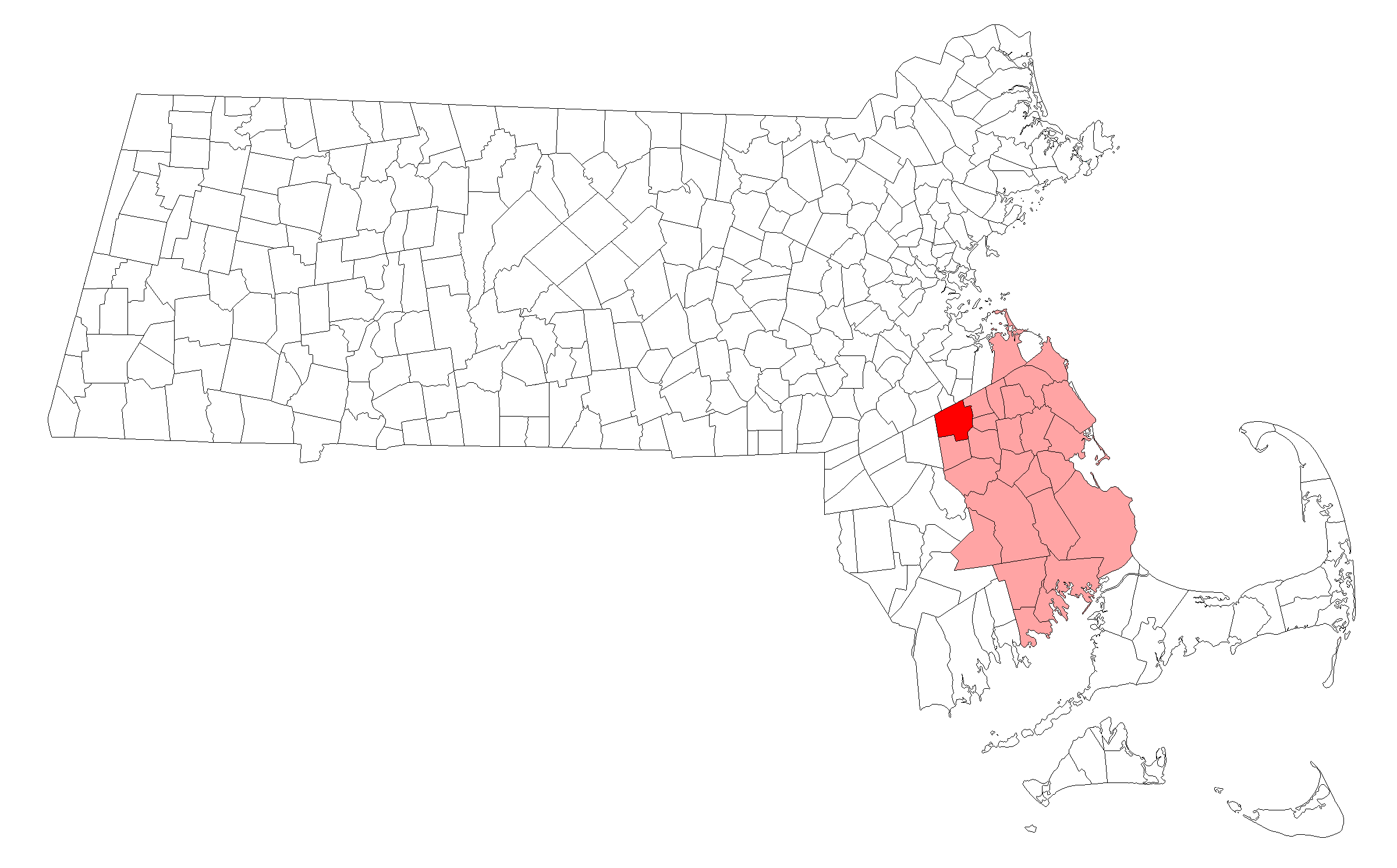 Brockton, Massachusetts